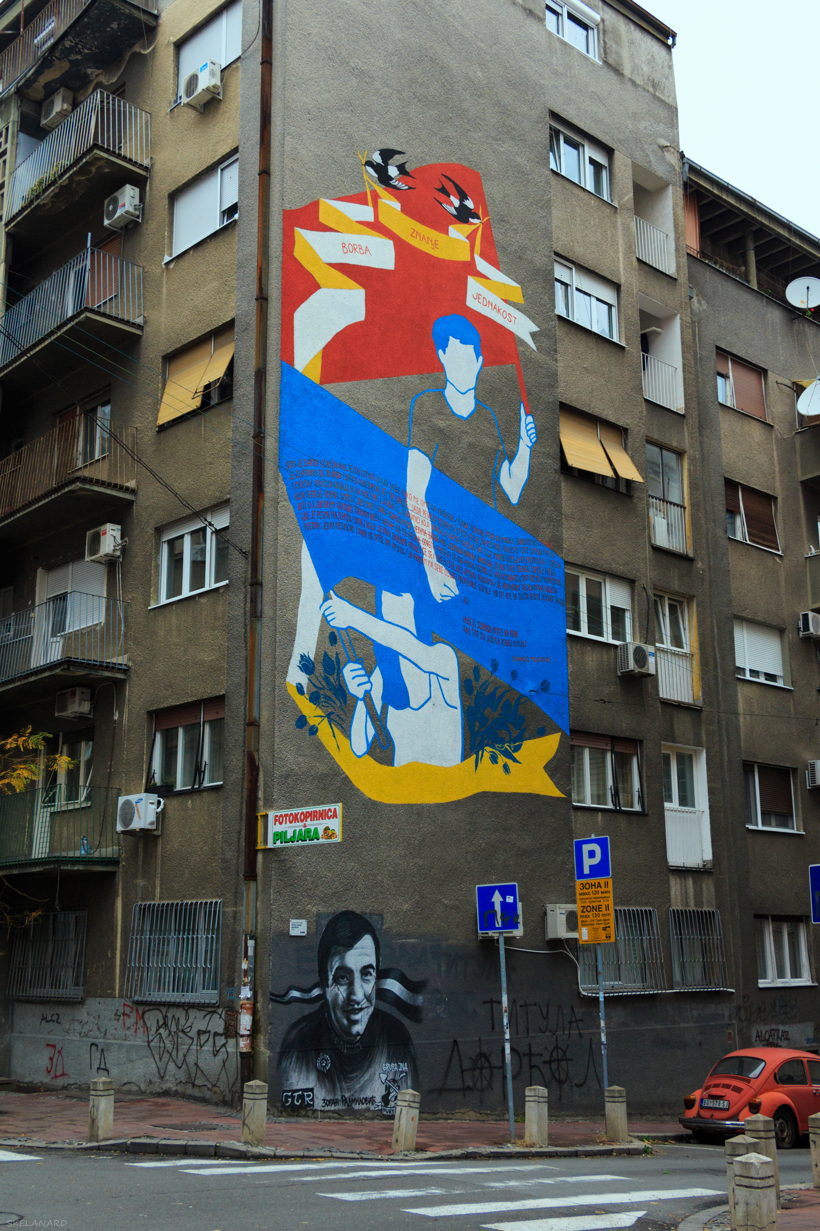 A mural with Branko Miljković poetry in Belgrade, Serbia